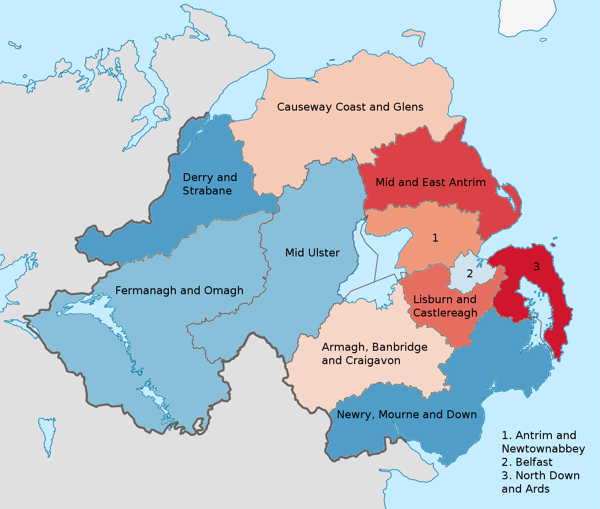 A map of Northern Ireland districts colour coded according to the difference between the percentage of people stating they were Protestant, or were brought up Protestant, and the percentage of people stating they were Catholic, or were brought up Catholic, in the 2011 census. Legend: 65% to 70% more Catholic than Protestant 60% to 65% more Catholic than Protestant 55% to 60% more Catholic than Protestant 50% to 55% more Catholic than Protestant 45% to 50% more Catholic than Protestant 40% to 45% more Catholic than Protestant 35% to 45% more Catholic than Protestant 30% to 35% more Catholic than Protestant 25% to 30% more Catholic than Protestant 20% to 25% more Catholic than Protestant 15% to 20% more Catholic than Protestant 10% to 15% more Catholic than Protestant 5% to 10% more Catholic than Protestant 0% to 5% more Catholic than Protestant 0% to 5% more Protestant than Catholic 5% to 10% more Protestant than Catholic 10% to 15% more Protestant than Catholic 15% to 20% more Protestant than Catholic 20% to 25% more Protestant than Catholic 25% to 30% more Protestant than Catholic 30% to 35% more Protestant than Catholic 35% to 40% more Protestant than Catholic 40% to 45% more Protestant than Catholic 45% to 50% more Protestant than Catholic 50% to 55% more Protestant than Catholic 55% to 60% more Protestant than Catholic 60% to 65% more Protestant than Catholic 65% to 70% more Protestant than Catholic